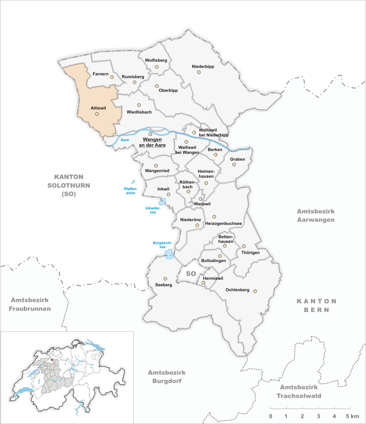 Municipality Attiswil